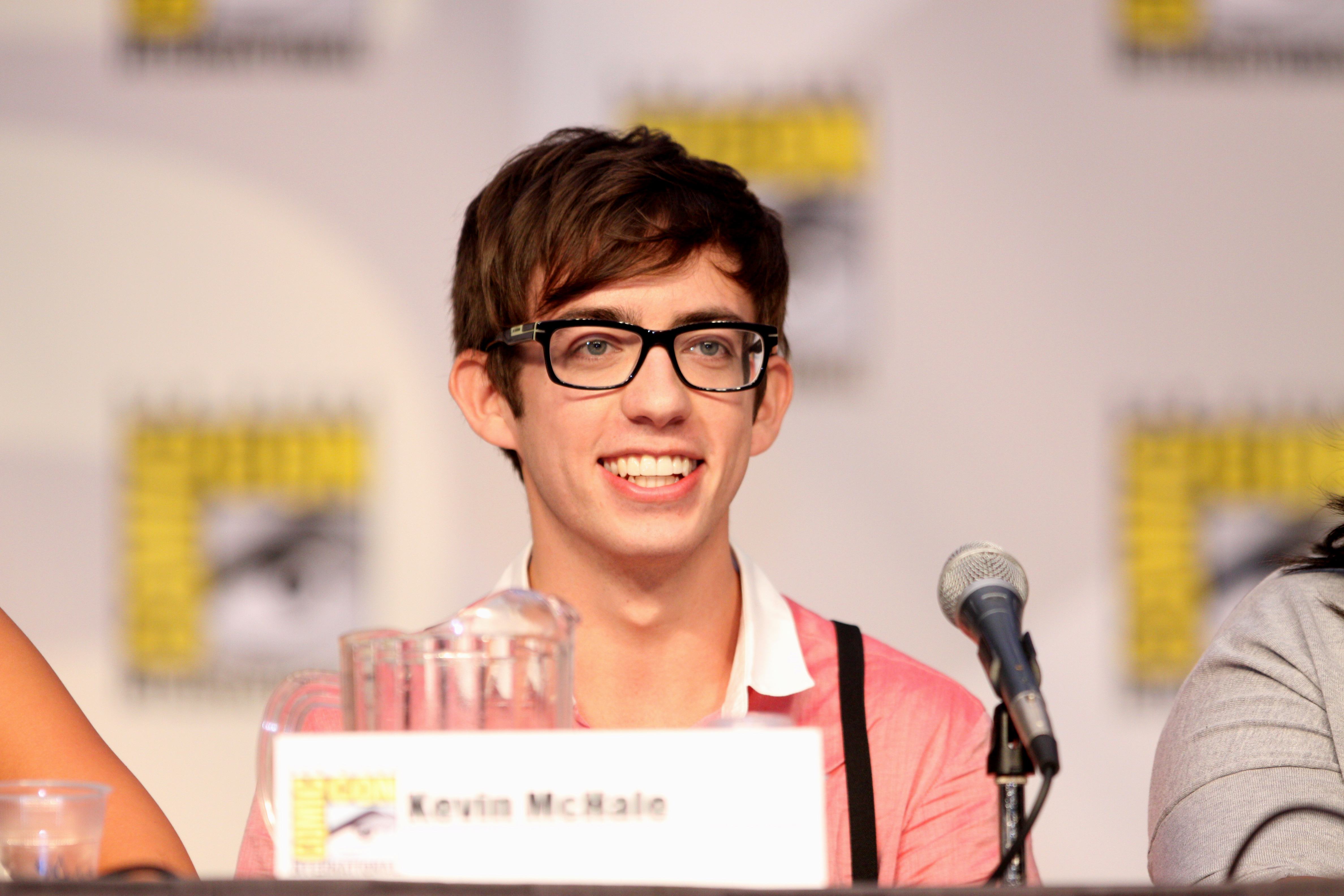 Actor Kevin McHale on the Glee panel at the 2010 San Diego Comic Con in San Diego, California.